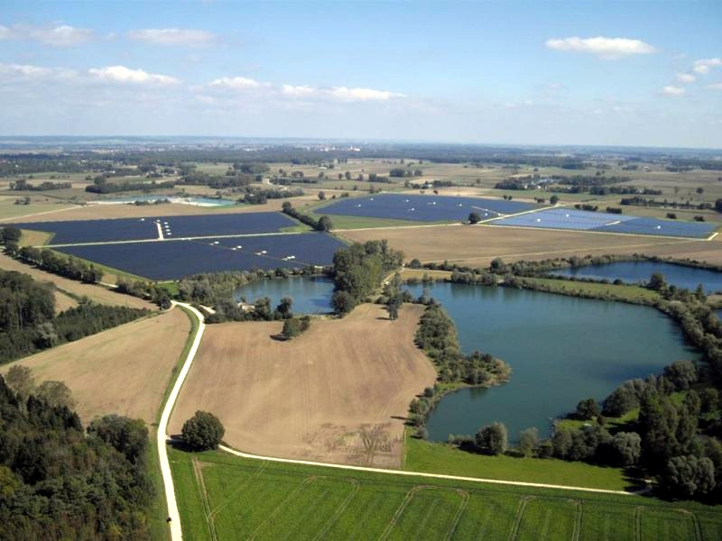 Lauingen Energie Park